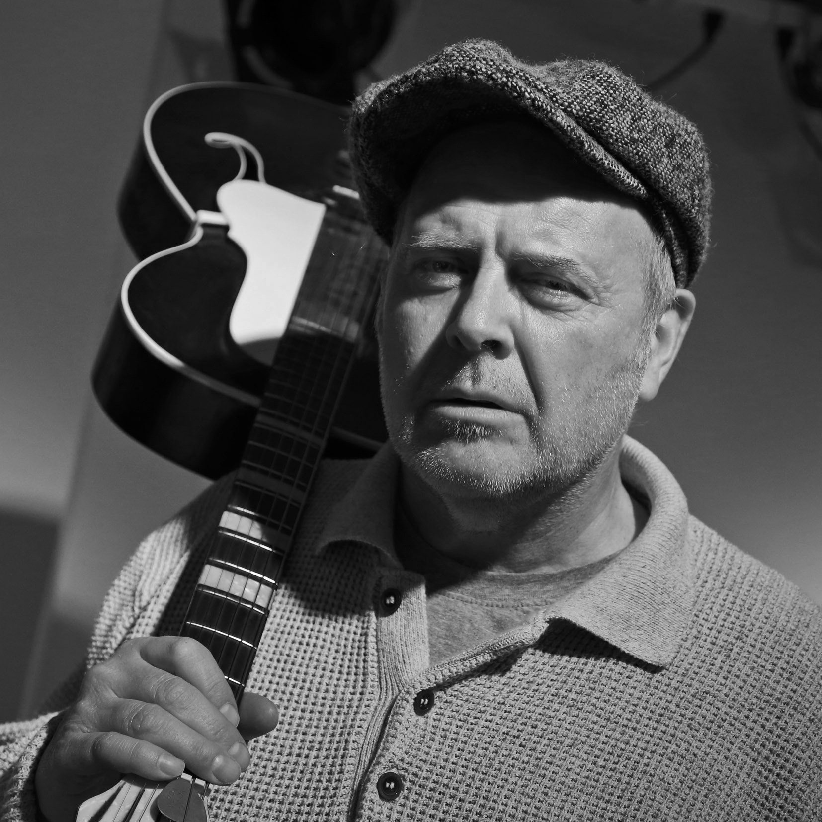 Albrecht Koch 2015